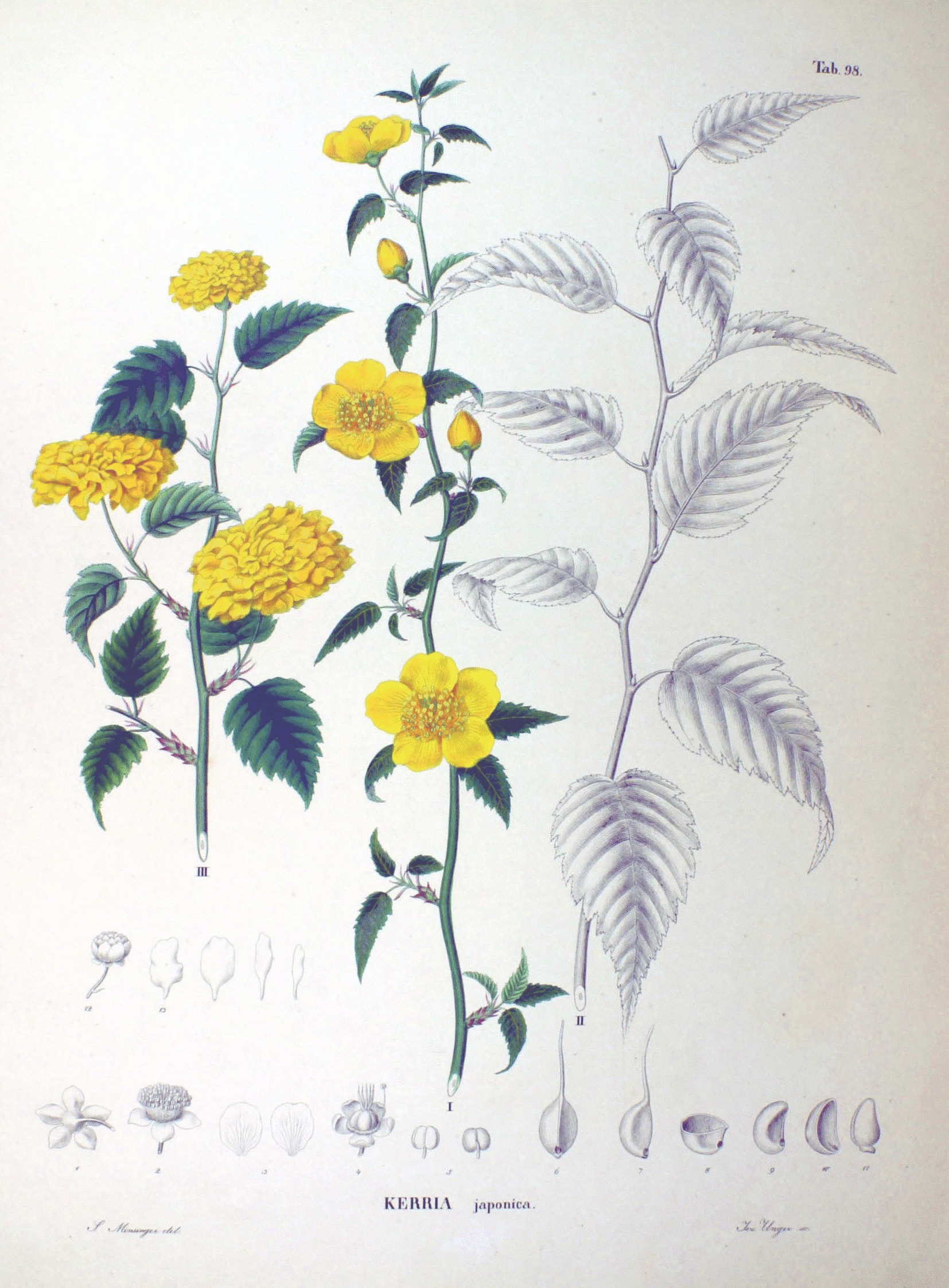 Plate from book